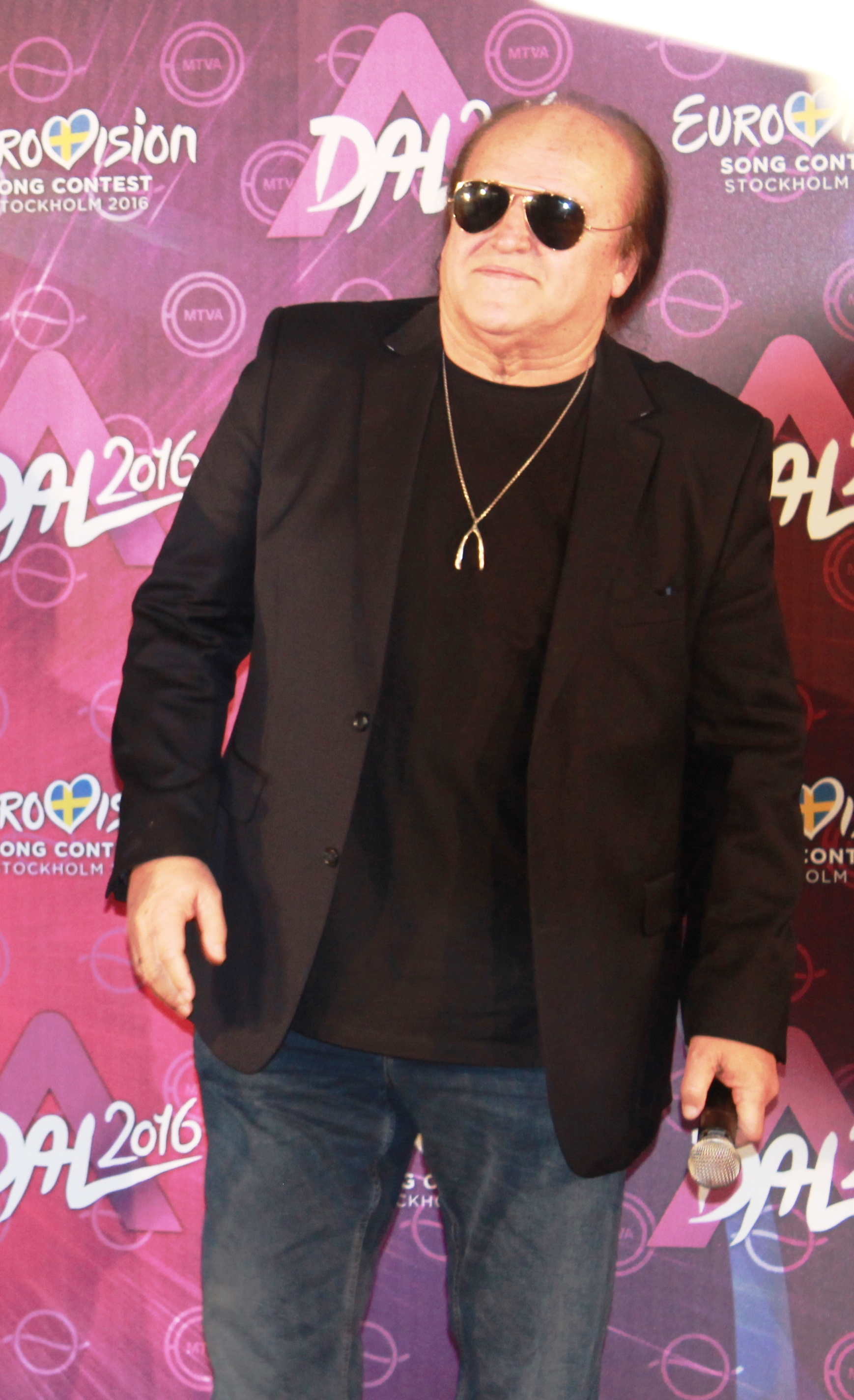 Károly Frenreisz, one of the jurors of A Dal 2016